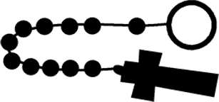 Irish penal rosary